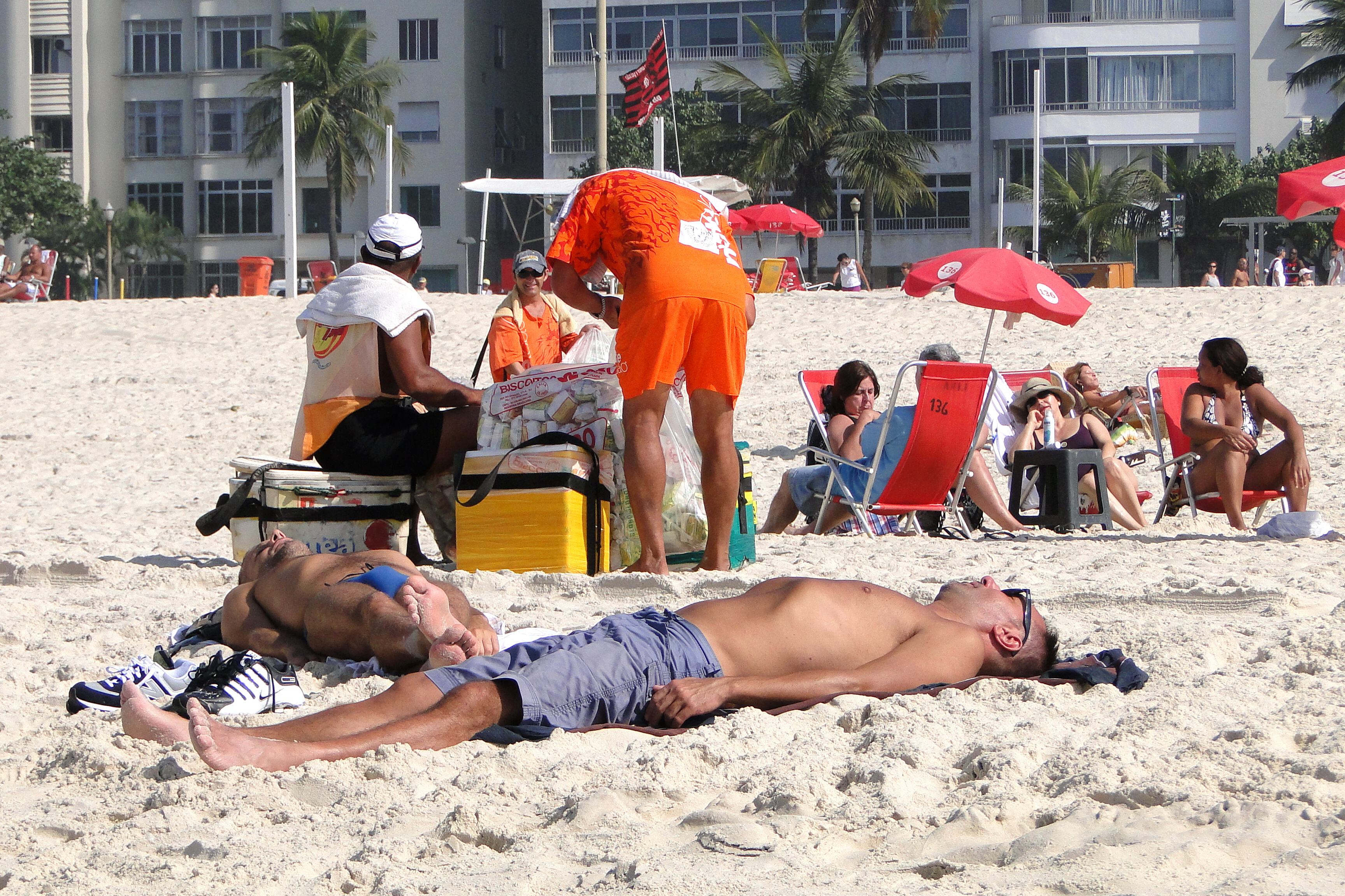 Beach Scene - Copacabana Beach - Rio de Janeiro - Brazil - 06